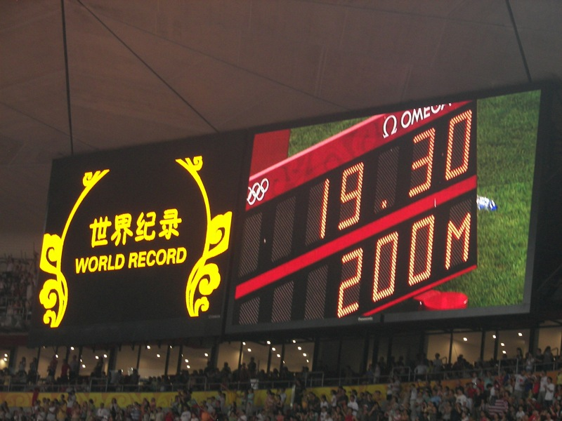 Usain Bolt 200 m world record 20-08-2008 - Beijing Olympics 2008